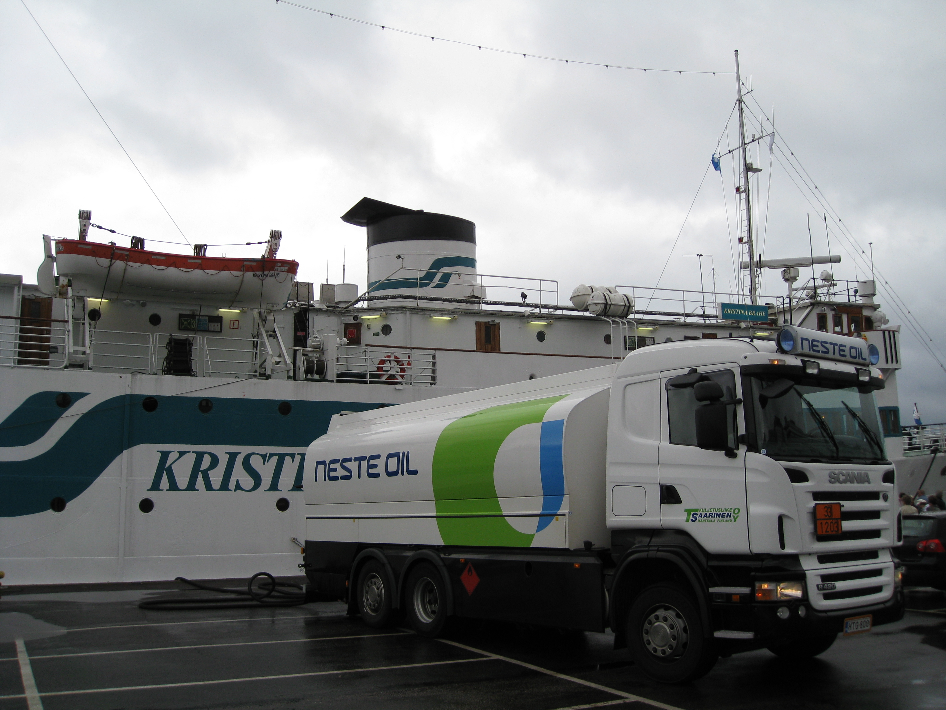 Neste Oil tank truck refueling M/S Kristina Brahe